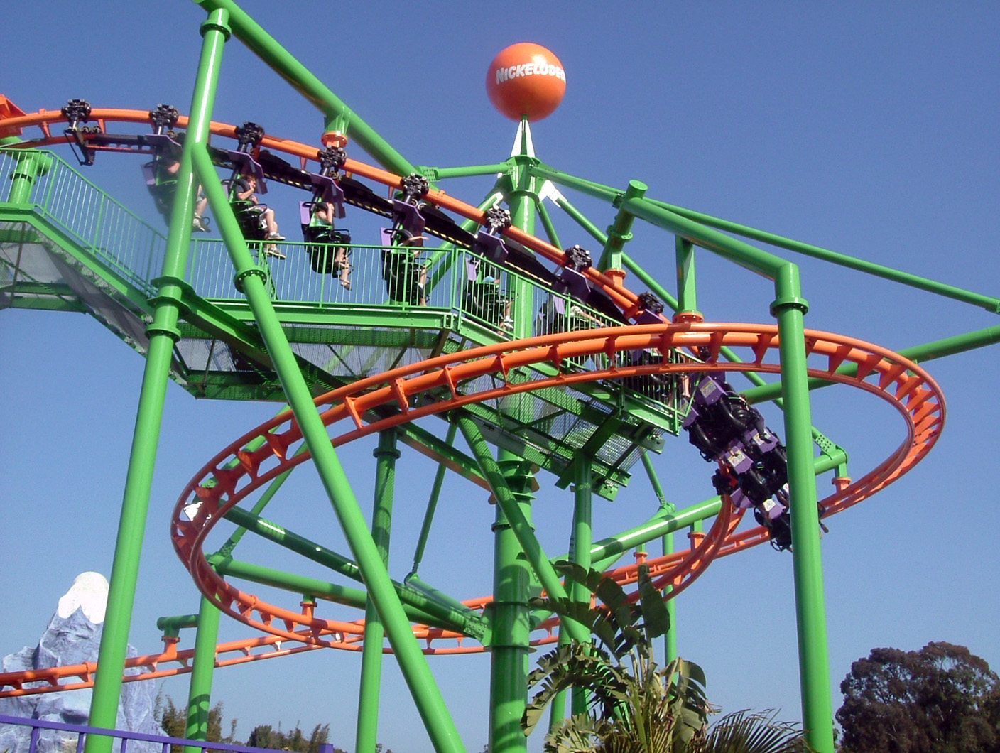 The Rugrats Runaway Reptar roller coaster at Dreamworld. The train is just dropping into the first helix after the lift hill.